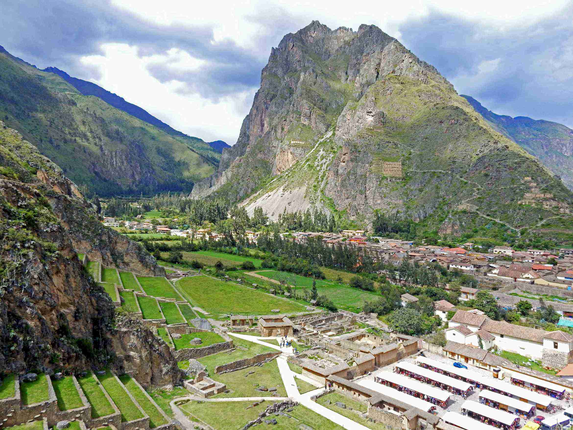 PERU | Heiliges Tal | Ollantaytambo | Sacred Valley View from the top of the Ollantaytambo Ruins. Panorama im Heiligen Tal auf die Ruinen von Ollantaytambo. You're welcome to use this picture free of charge, as long as you follow the license terms. As a matter of courtesy a link (dofollow links are welcome!) to is much appreciated. Thank you! ————————–—–—–—–—–—–—–—–—–—–—–—–—–—–—– Du kannst dieses Bild gemäß der Lizenzbestimmungen unentgeltlich nutzen. Über eine Verlinkung (dofollow am liebsten) auf freuen wir uns. Danke!